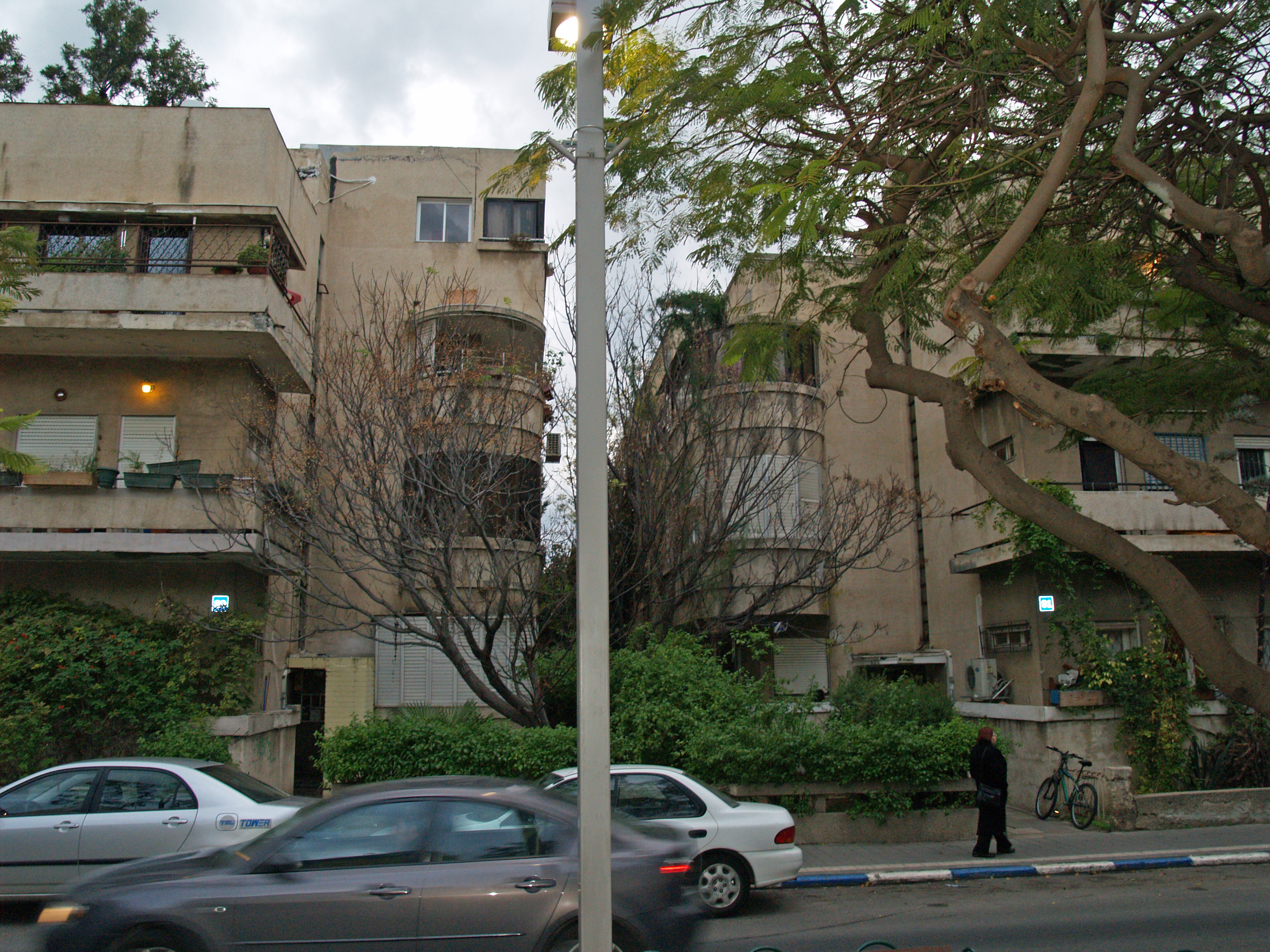 Bauhaus architecture in the White City of Tel Aviv at 89-91 Rothschild Boulevard. Yitzhaki House. Architect: Pinhas Hitt, 1933. Twin residential buildings that are a mirror image of each other, separated by greenery. The balconies in the front section are angular and shaded, while in the rear section, the porches are curved.